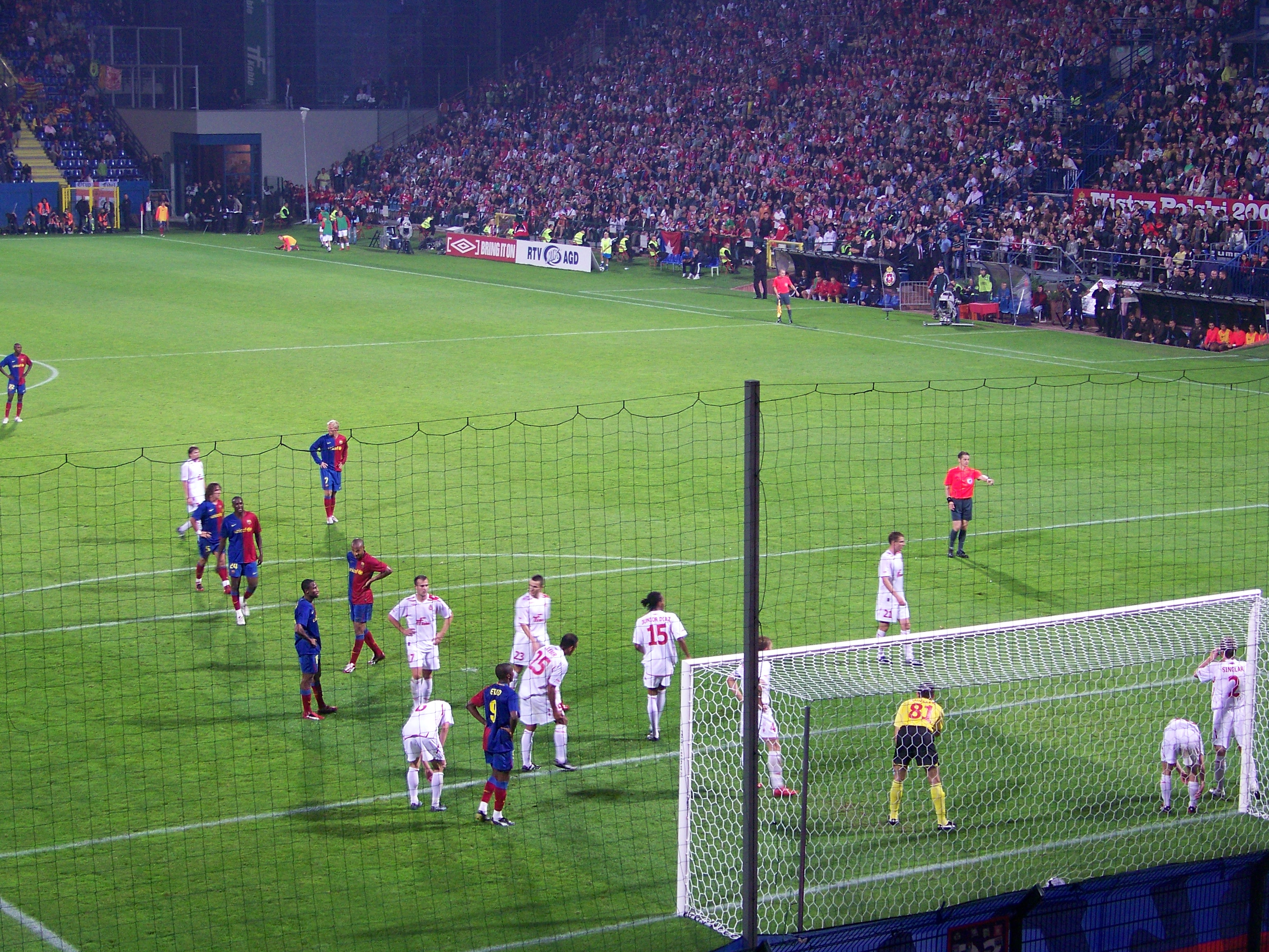 FC Barcelona's players prepare to attack a corner kick against Wisla Krakow